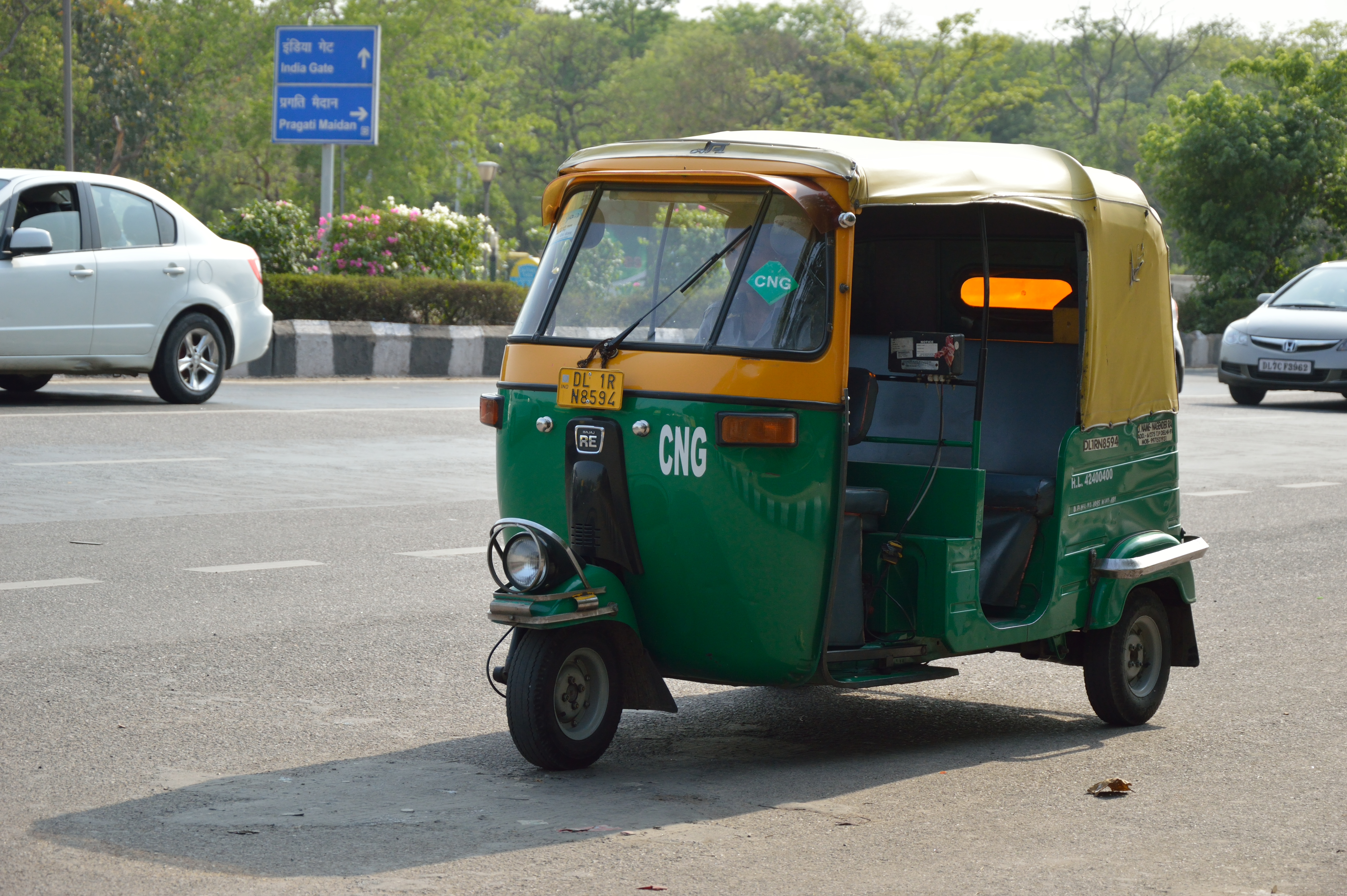 Photographed in New Delhi, India.